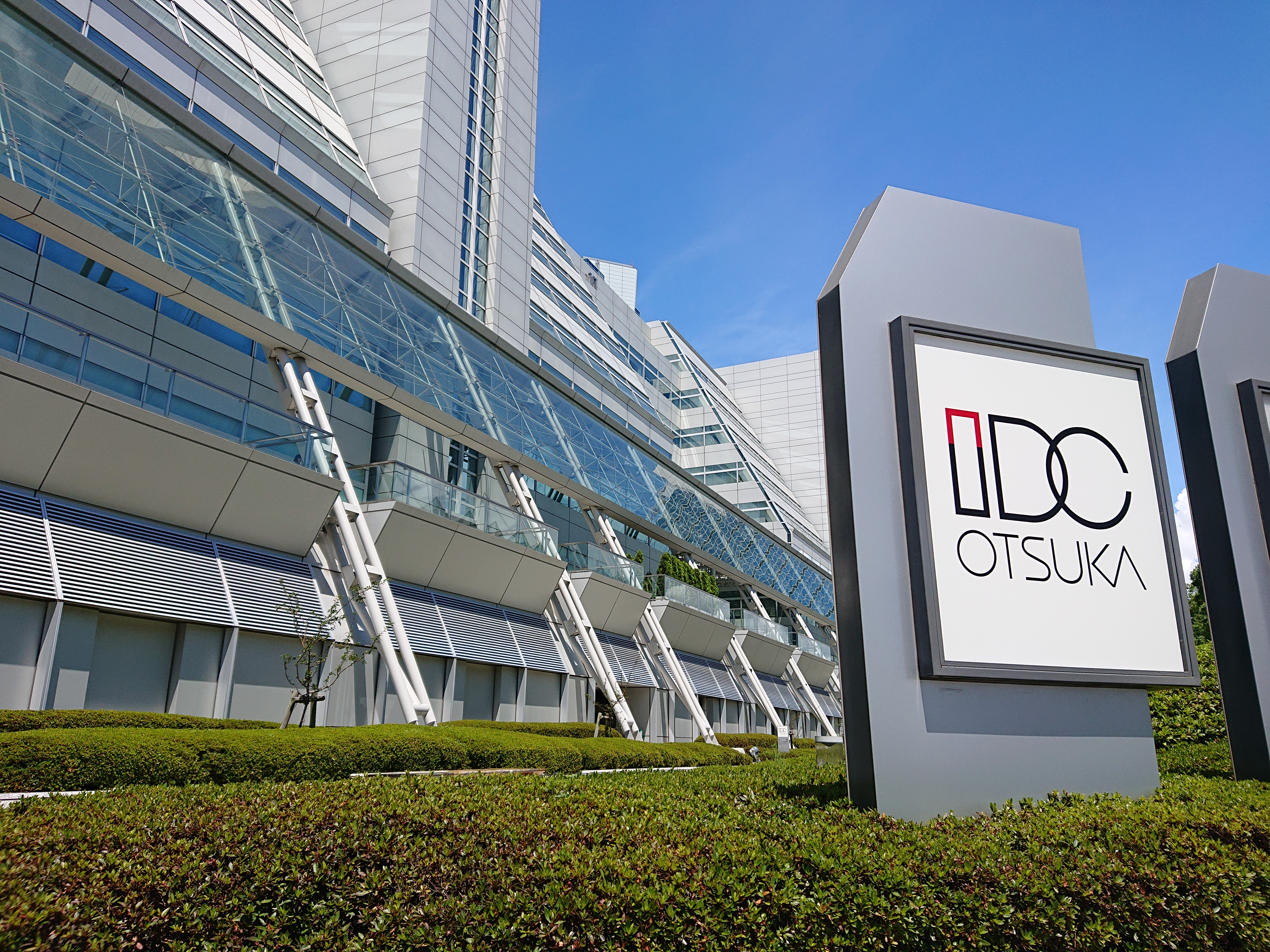 Tokyo Fashion Town Building (東京ファッションタウンビル), located at Ariake, Koto, Tokyo, Japan